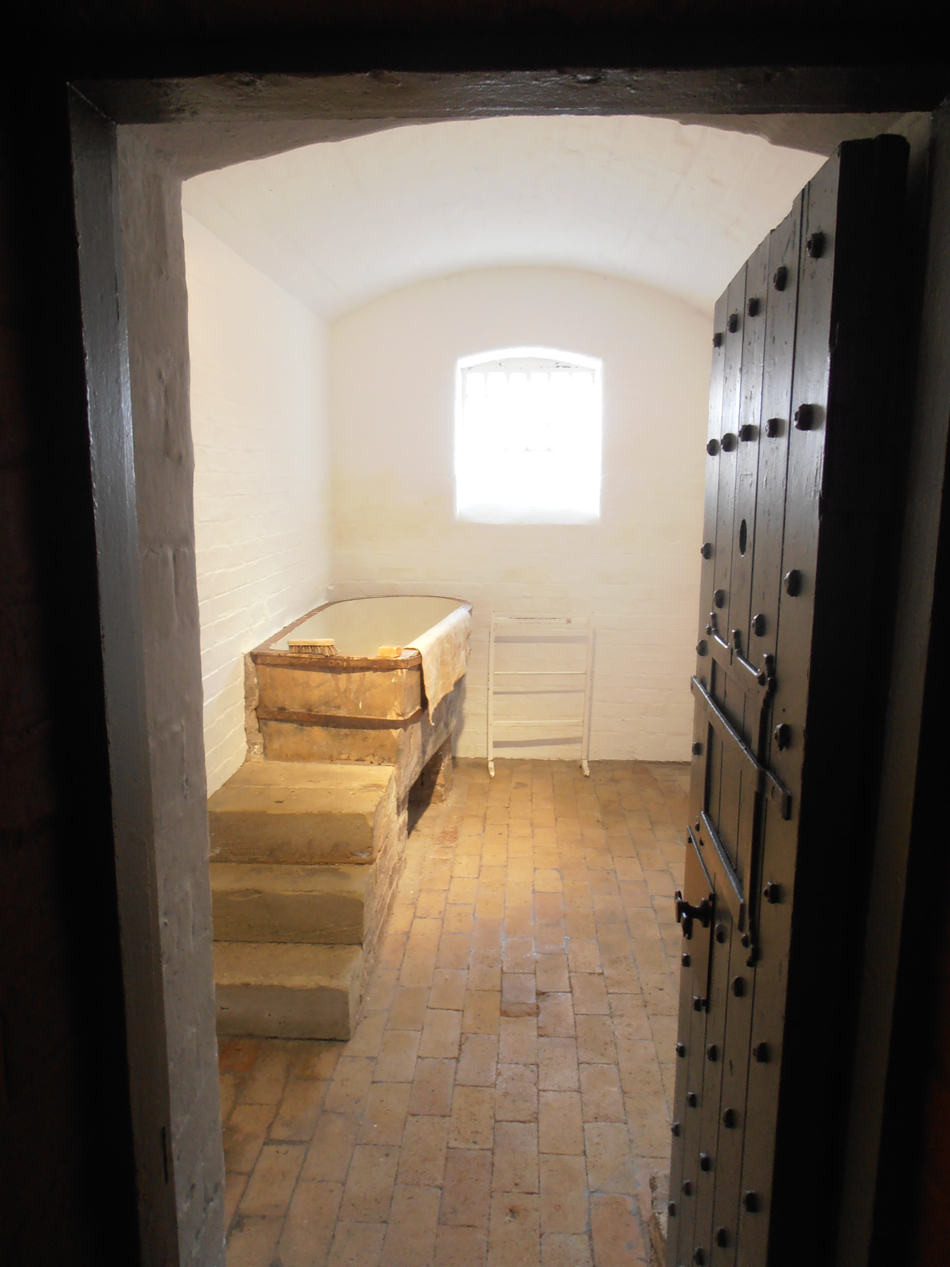 Ruthin Gaol. Grade 2*